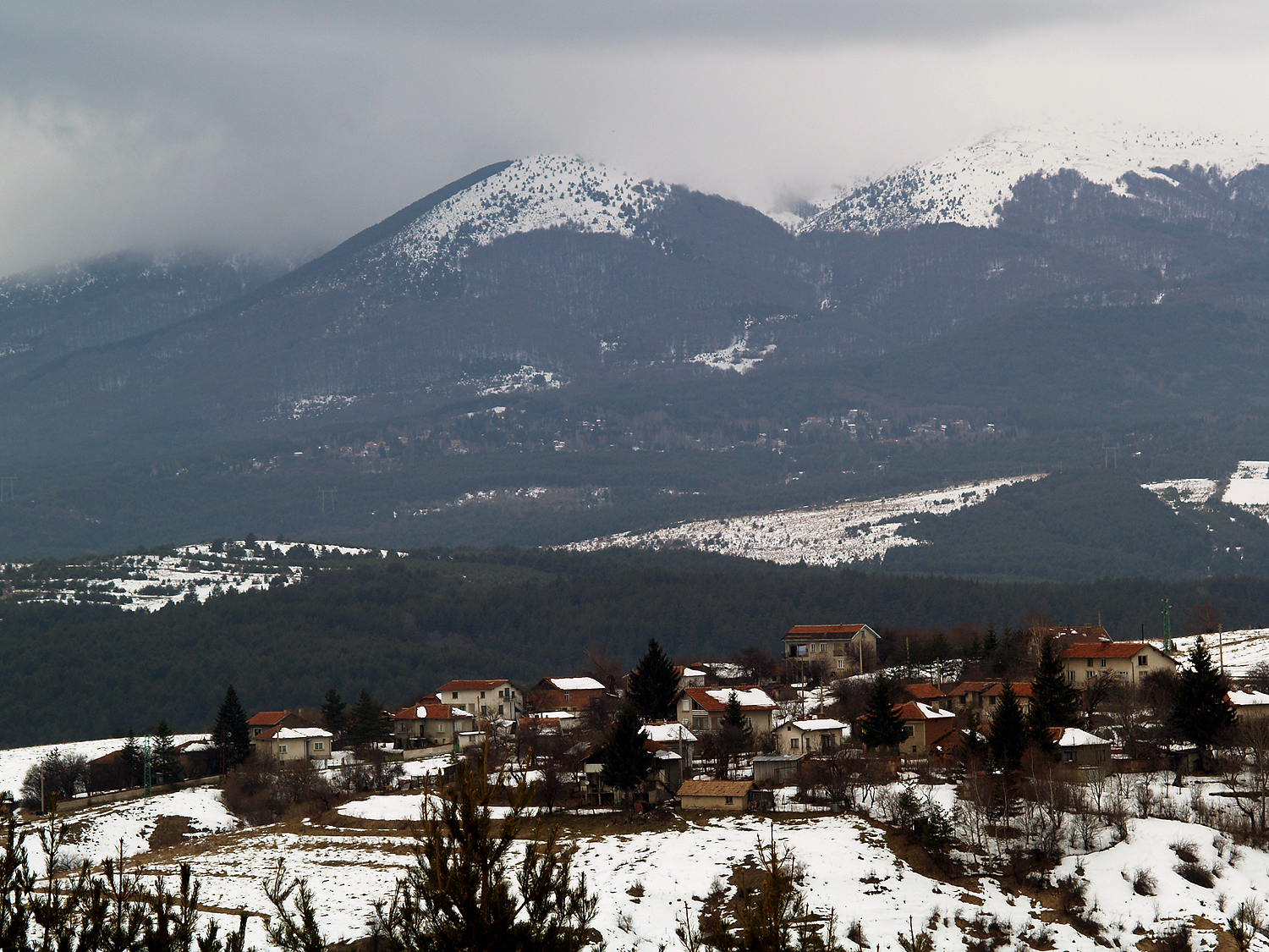 A district of Plana